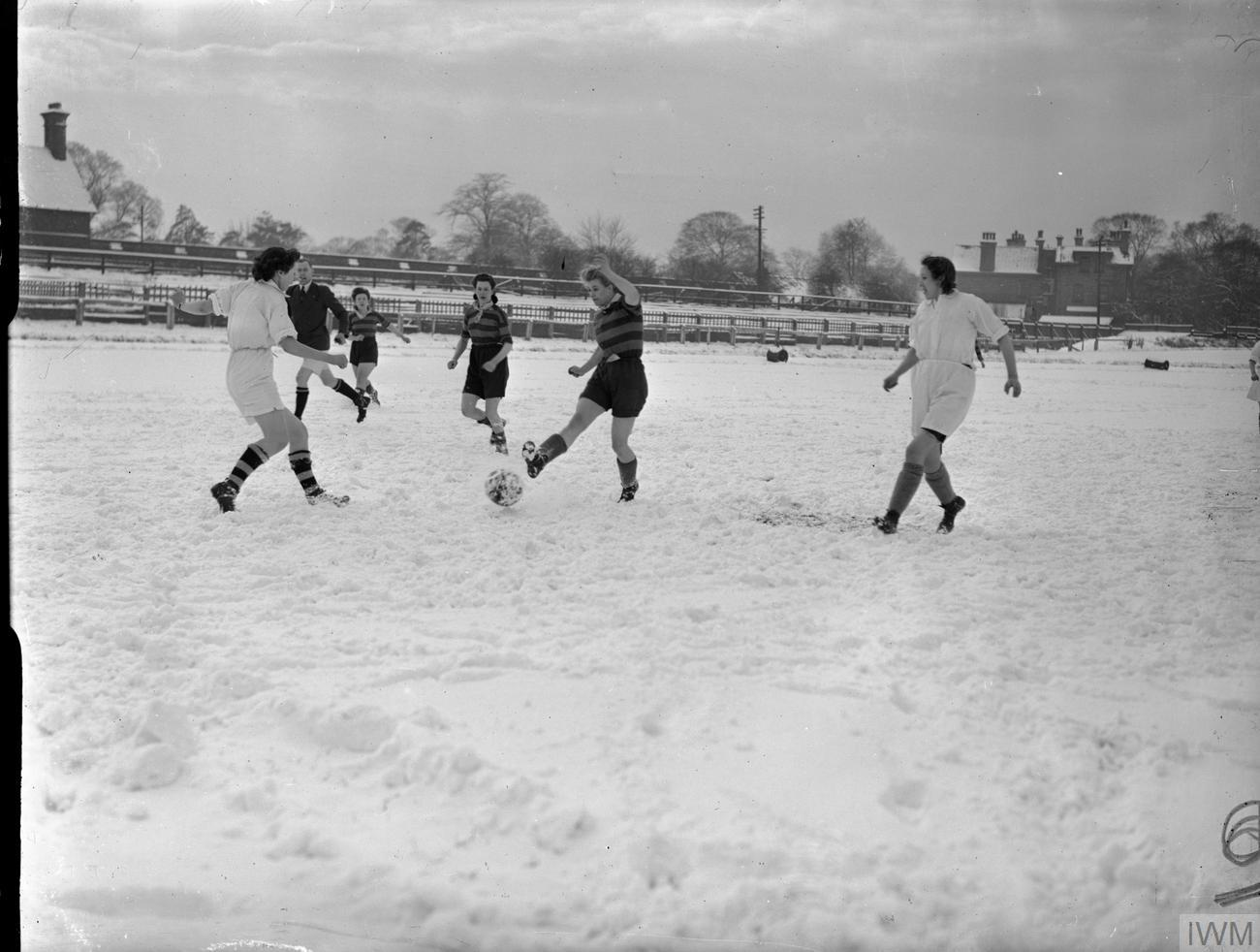 Faireys Play Soccer- a Women's Football Match Between Fairey and Av Roe, Fallowfield, Manchester, Lancashire, England, UK, 1944 A player of the Fairey team (striped jersey) kicks the ball as two members of the AV Roe team (white jerseys) run in from either side. The match is taking place on the snow-covered pitch of Manchester Athletic Club's ground at Fallowfield.